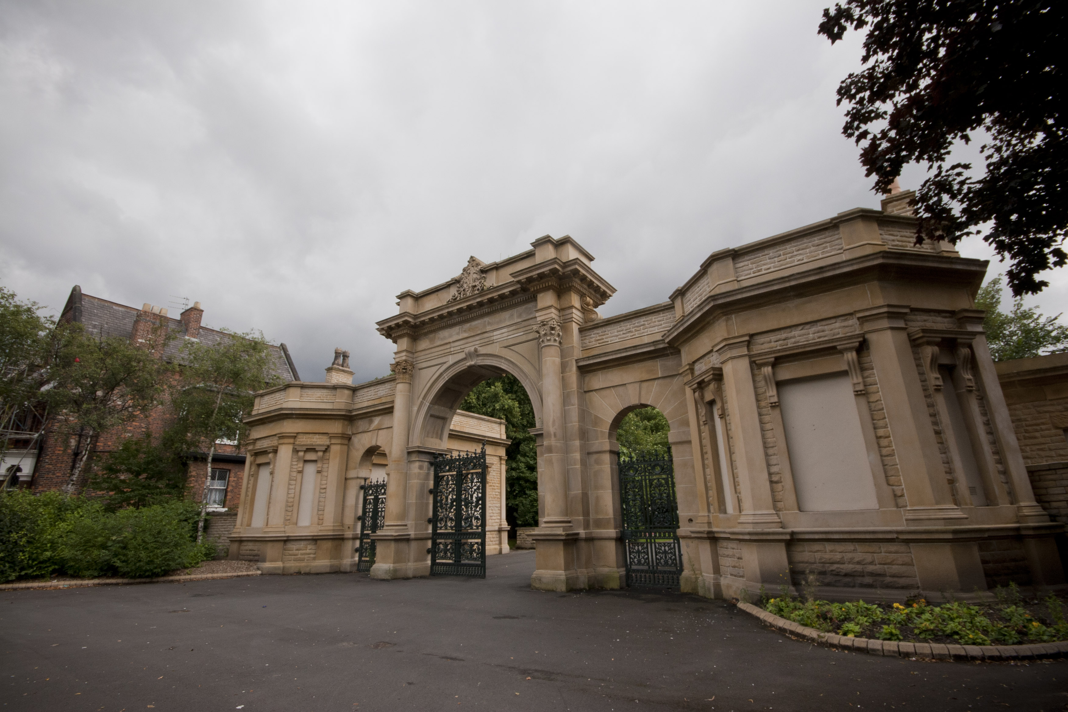 Old entrance lodge to Trafford Park, now located on the A56 at Stretford.